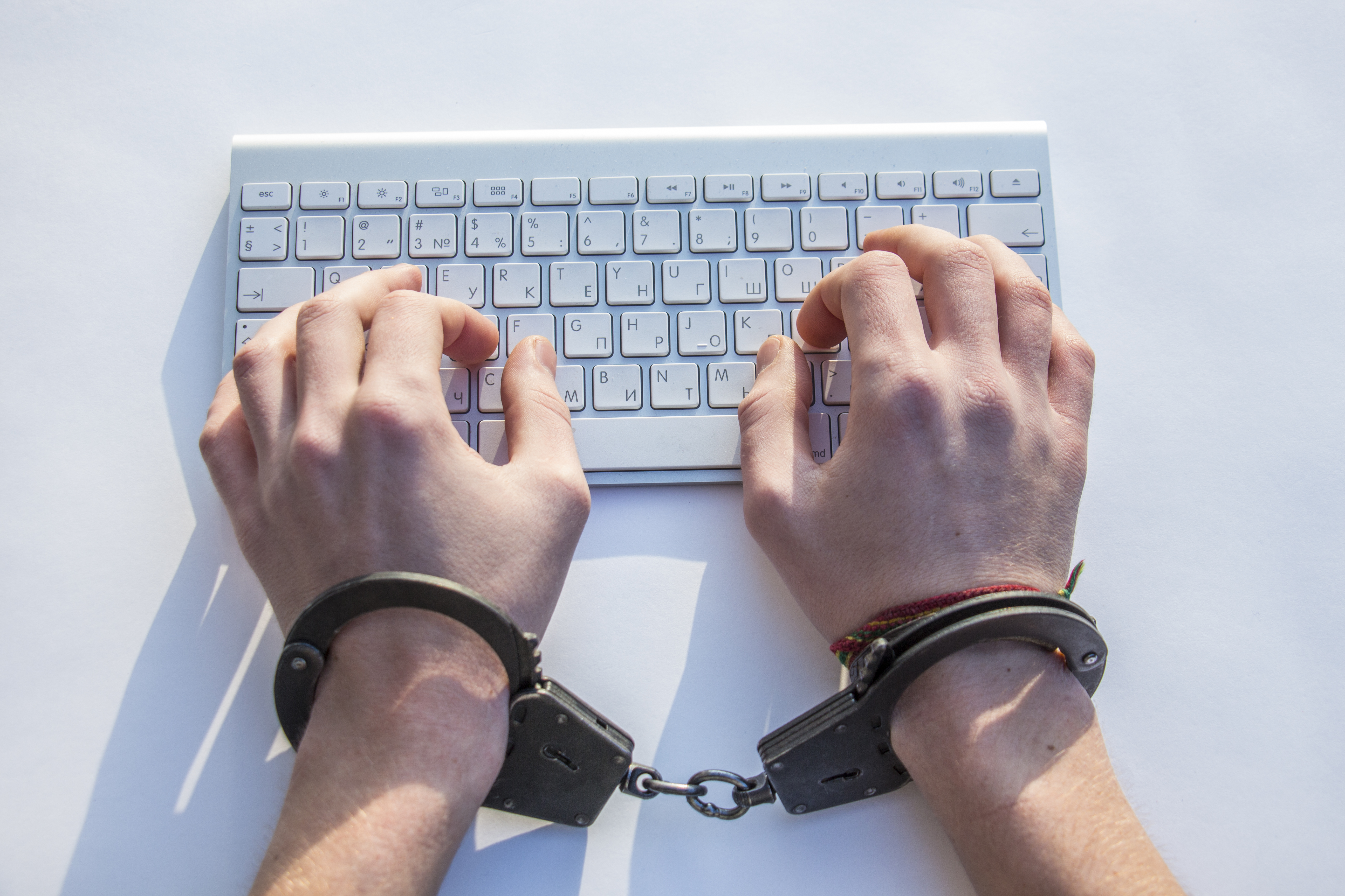 Video game addiction, and Internet addiction disorder. Gambling - a mental disorder according to the classification of the World Health Organization. Treatment of gambling - is complex and is conducted in specialized rehabilitation centers. .